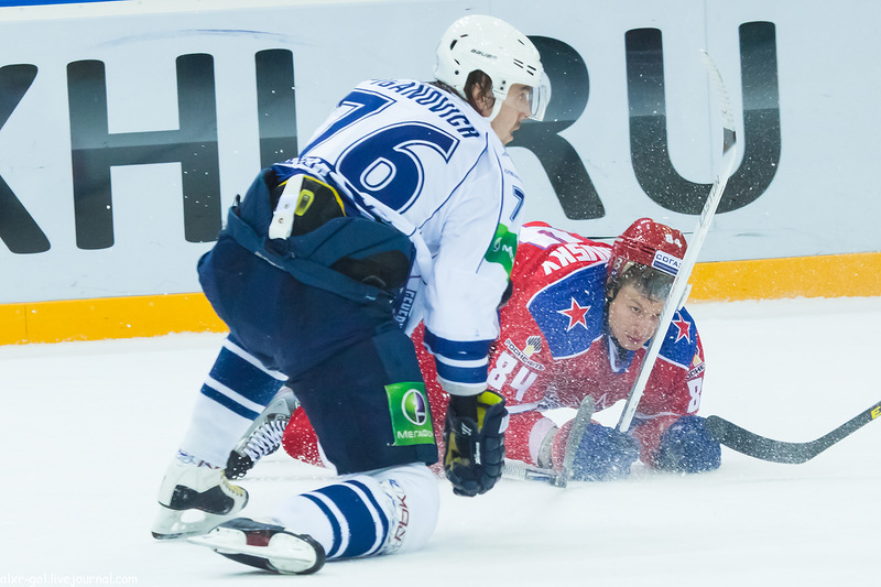 Amur Khabarovsk defenceman Oleg Piganovich (in white) hits CSKA Moscow forward Mikhail Grabovski (in red) during KHL game on November 2, 2012.